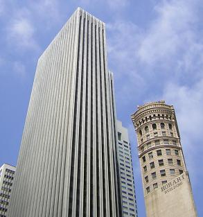 The Hobart Building in San Francisco